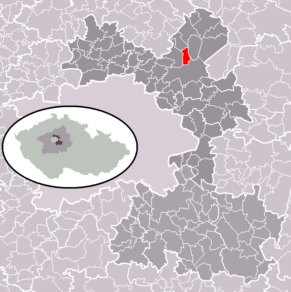 Location of Borek municipality within Prague-East District and administrative area of Brandýs nad Labem-Stará Boleslav as a Municipality with Extended Competence.